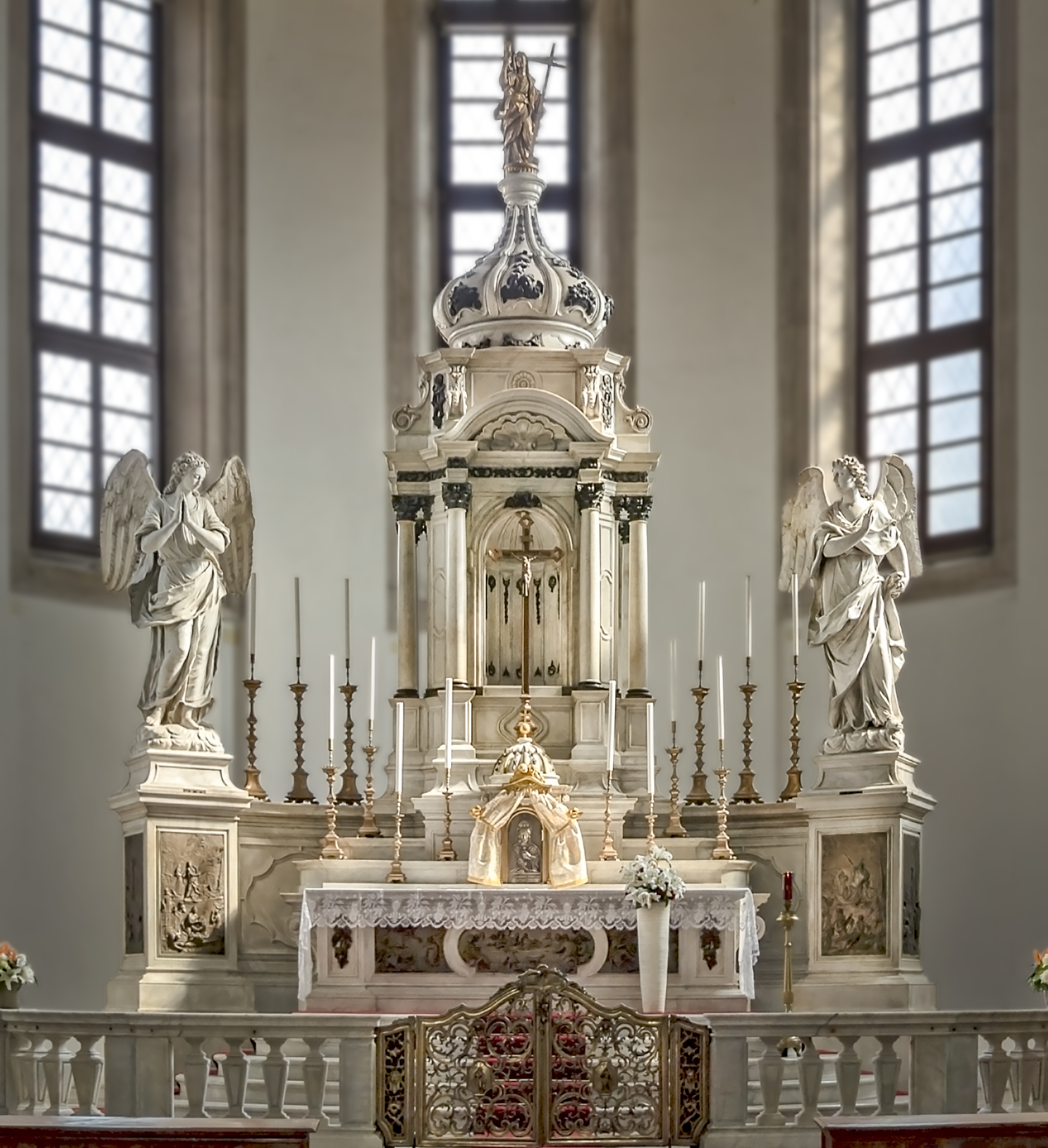 The Baroque altar is due to Giovanni Gloria and Giorgio Massari. It is decorated by two large marble angels, one to the right of Tommaso Bonazza and the other to the left of Jacopo Gabano, both dating back to 1751. The bronze panels were also made by Gabano and represent: prayer in the garden, the last supper, the washing of the feet, the preaching of John the Baptist, the miracle of the manna and the multiplication of the fish.